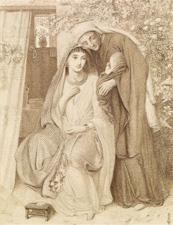 Ruth, Naomi and Obed. Pen and brown ink over pencil on paper.